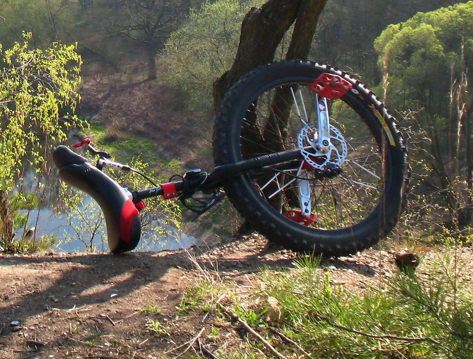 Mountain unicycle with disk brake (external disk brake standard) and dual hole cranks